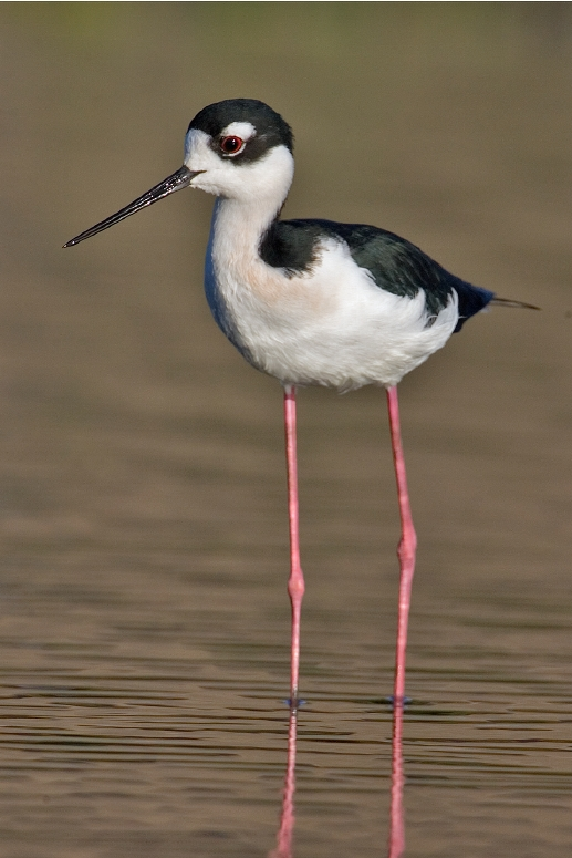 Himantopus mexicanus - Black-Necked Stilt, San Joaquin Wildlife Sanctuary, Near Huntington Beach, California